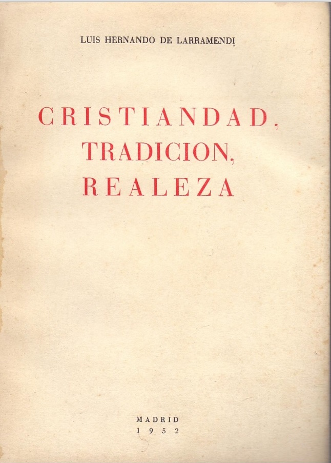 cover of a 1952 book